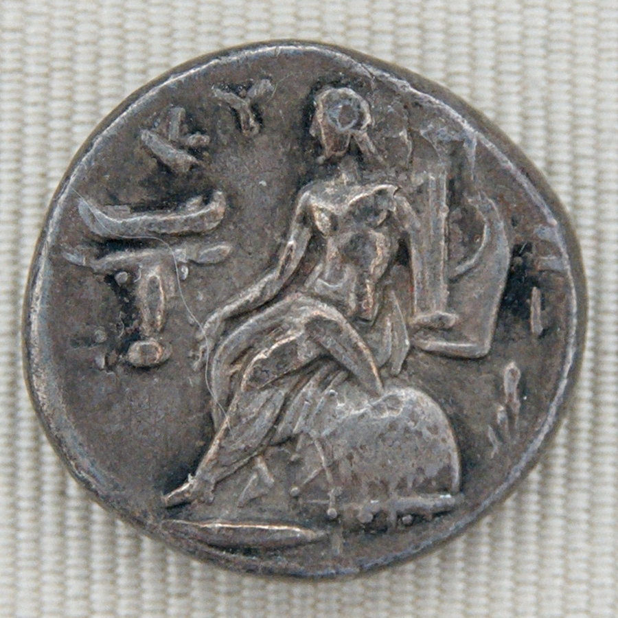 Silver tetradrachm issued by the city of Cyzicus, ca. 300 BC, reverse: Apollo Citharoedus sitting on the omphalos.